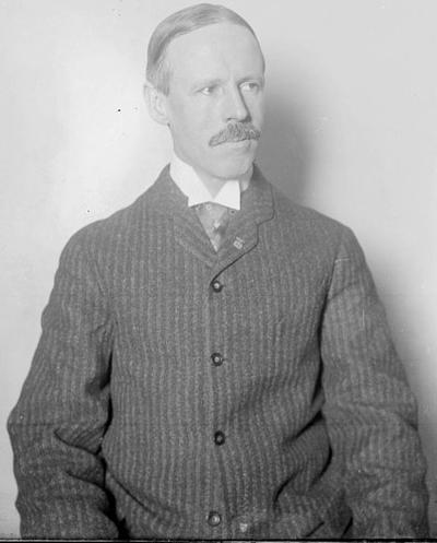 1905 photograph of baseball player John Clarkson. Note: image cropped from original photo.